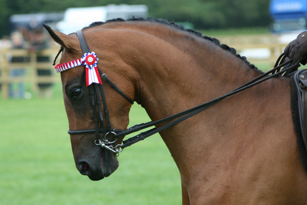 Showing at the Herts county show with double bridle.